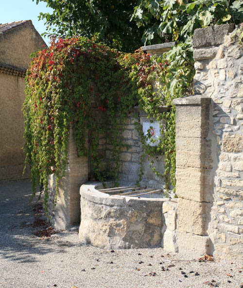 the village of Lagarde-Paréol, Vaucluse, France